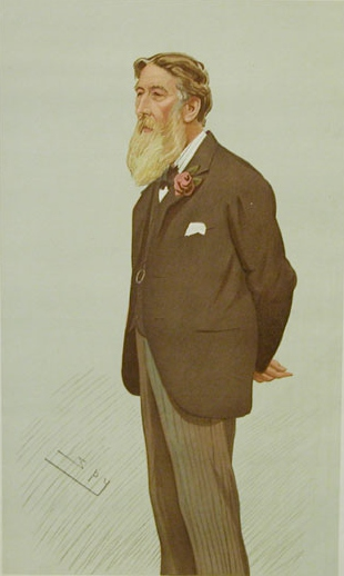 Caricature of Mr WL Thomas. Caption read "The Graphics".